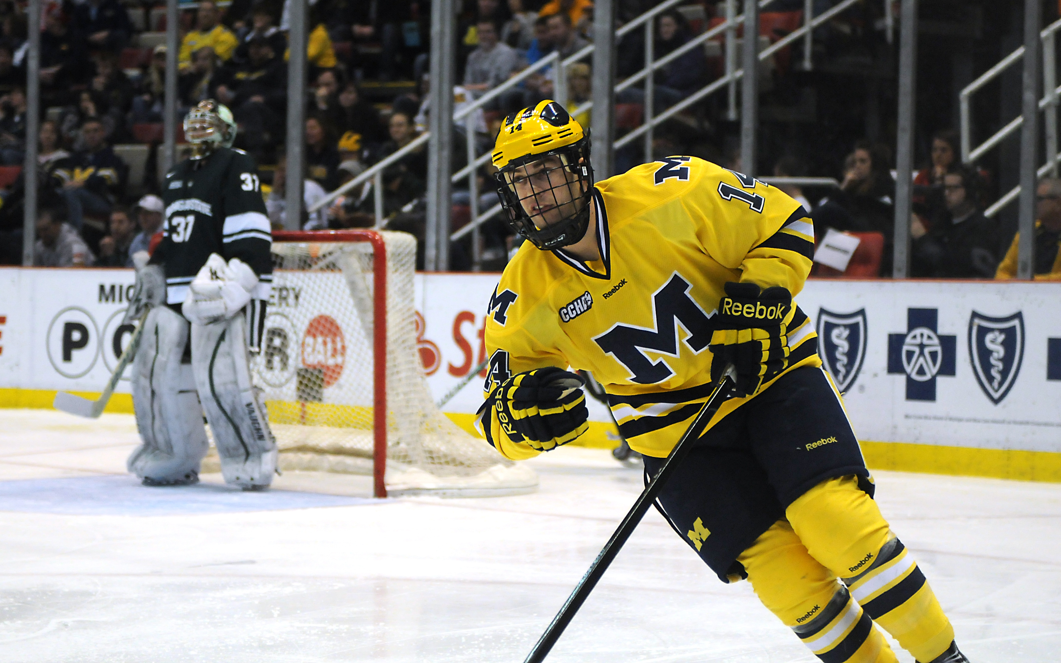 Kevin Lynch at Joe Louis Arena on January 11, 2012(ADAM GLANZMAN/Daily)